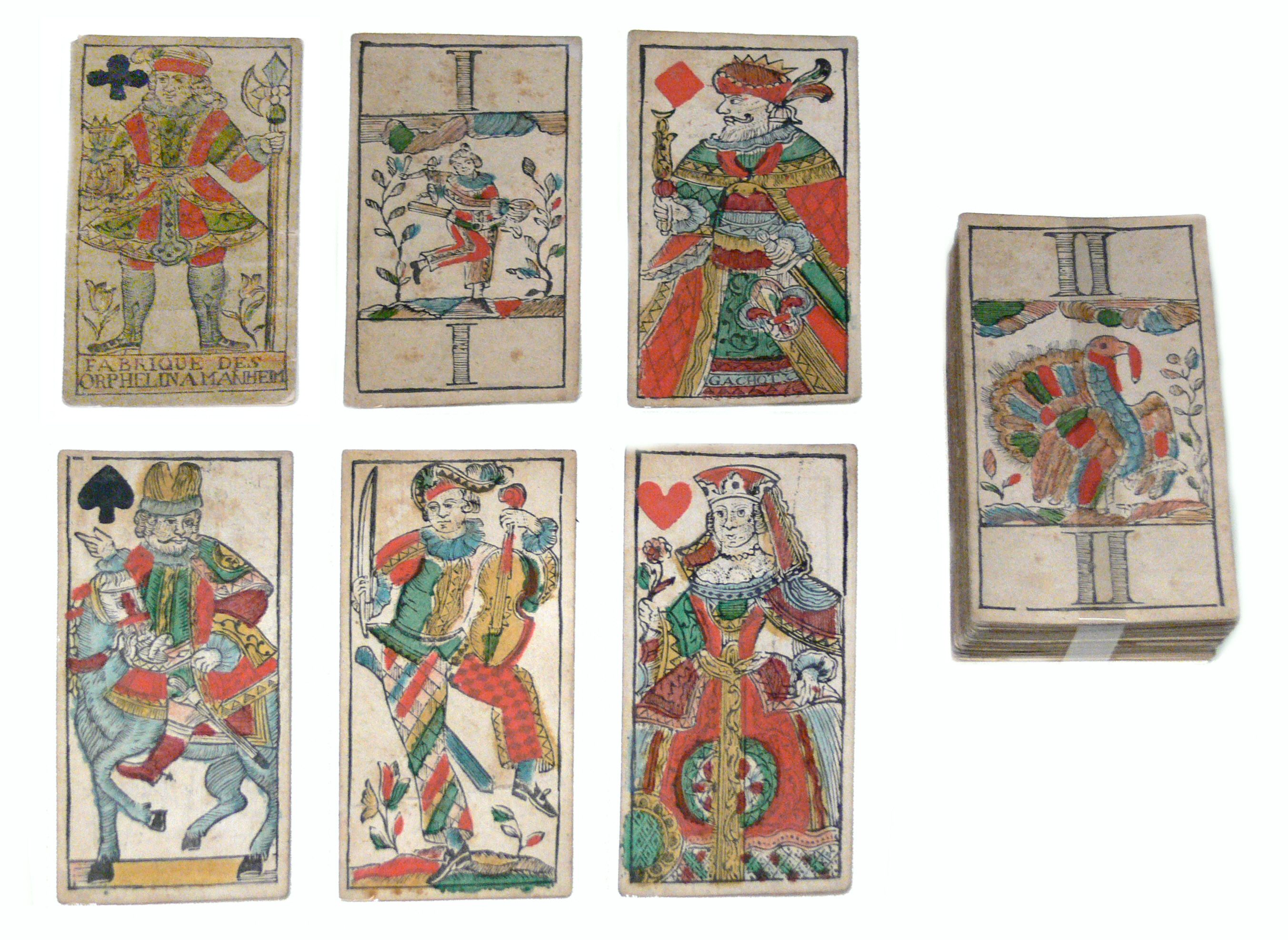 Animal tarot card deck, printed by Waisenhausdruckerei Mannheim, c. 1778. Reiss-Engelhorn-Museums, Mannheim.